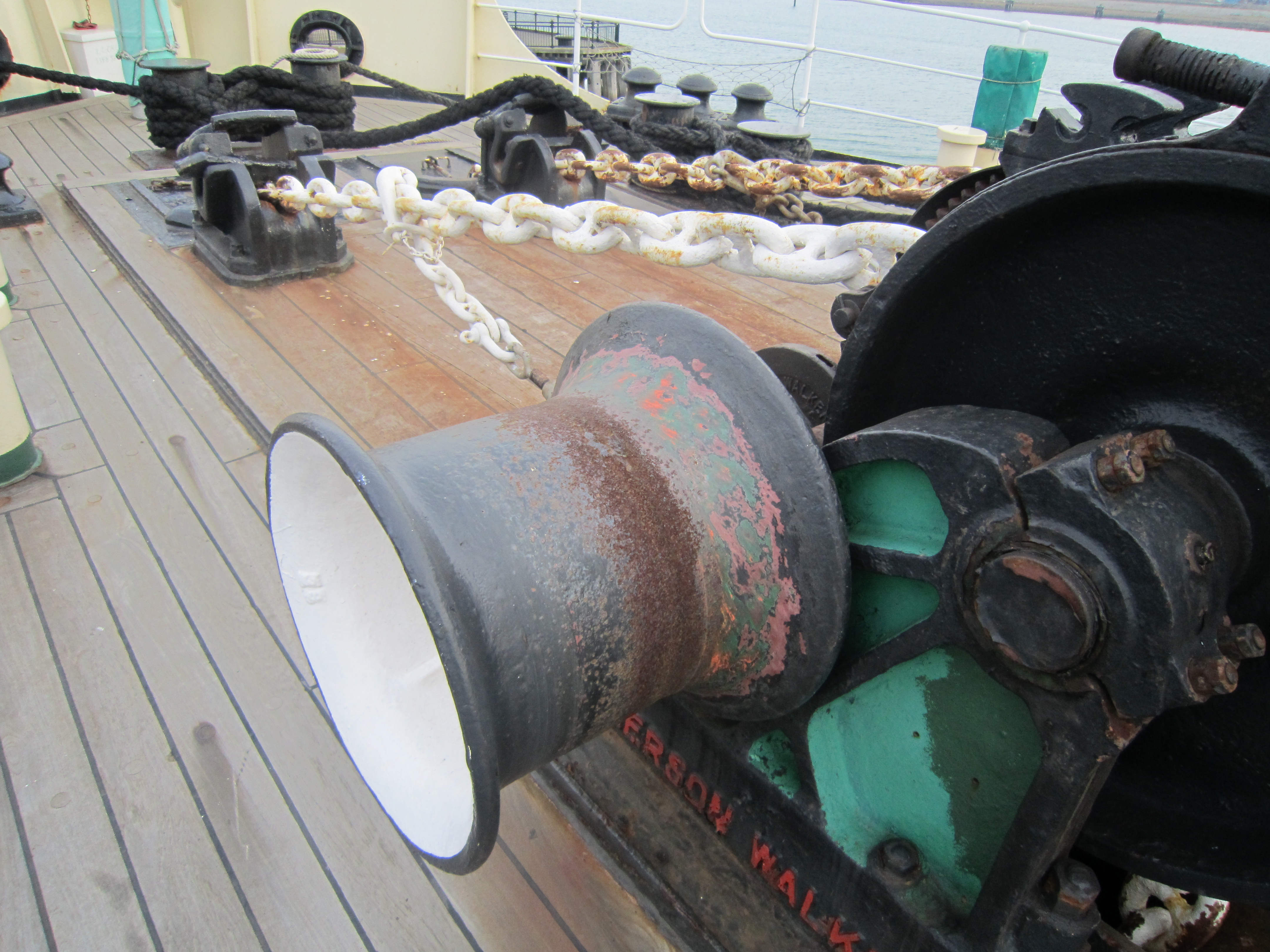 Windlass drum end on board SS Shieldhall. SS Shieldhall is a preserved steamship that operates from Southampton. She spent her working life as one of the "Clyde sludge boats", making regular trips from Shieldhall in Glasgow, Scotland, down the River Clyde and Firth of Clyde past the Isle of Arran, to dump treated sewage sludge at sea. These steamships had a tradition, dating back to World War I, of taking organised parties of passengers on their trips during the summer. SS Shieldhall has been preserved and the accommodation is again being put to good use for cruises.